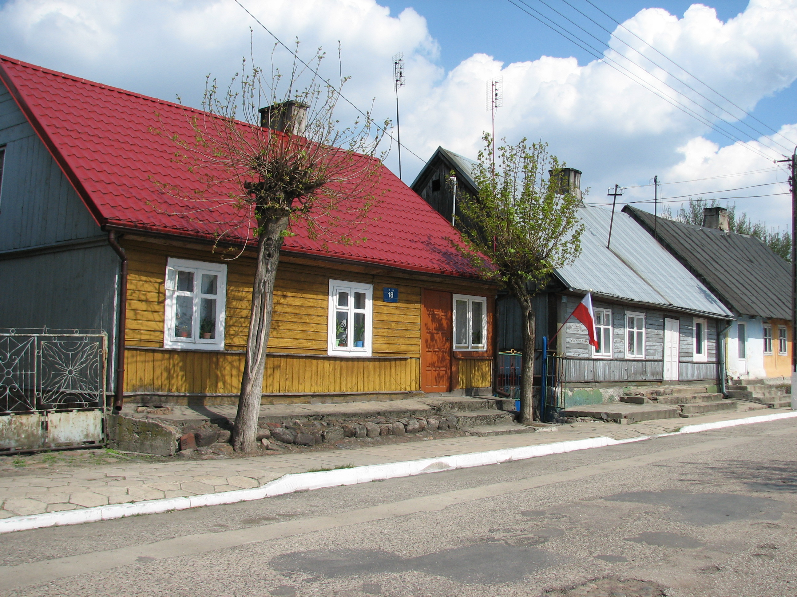 Traditional houses in Czerwińsk nad Wisłą.